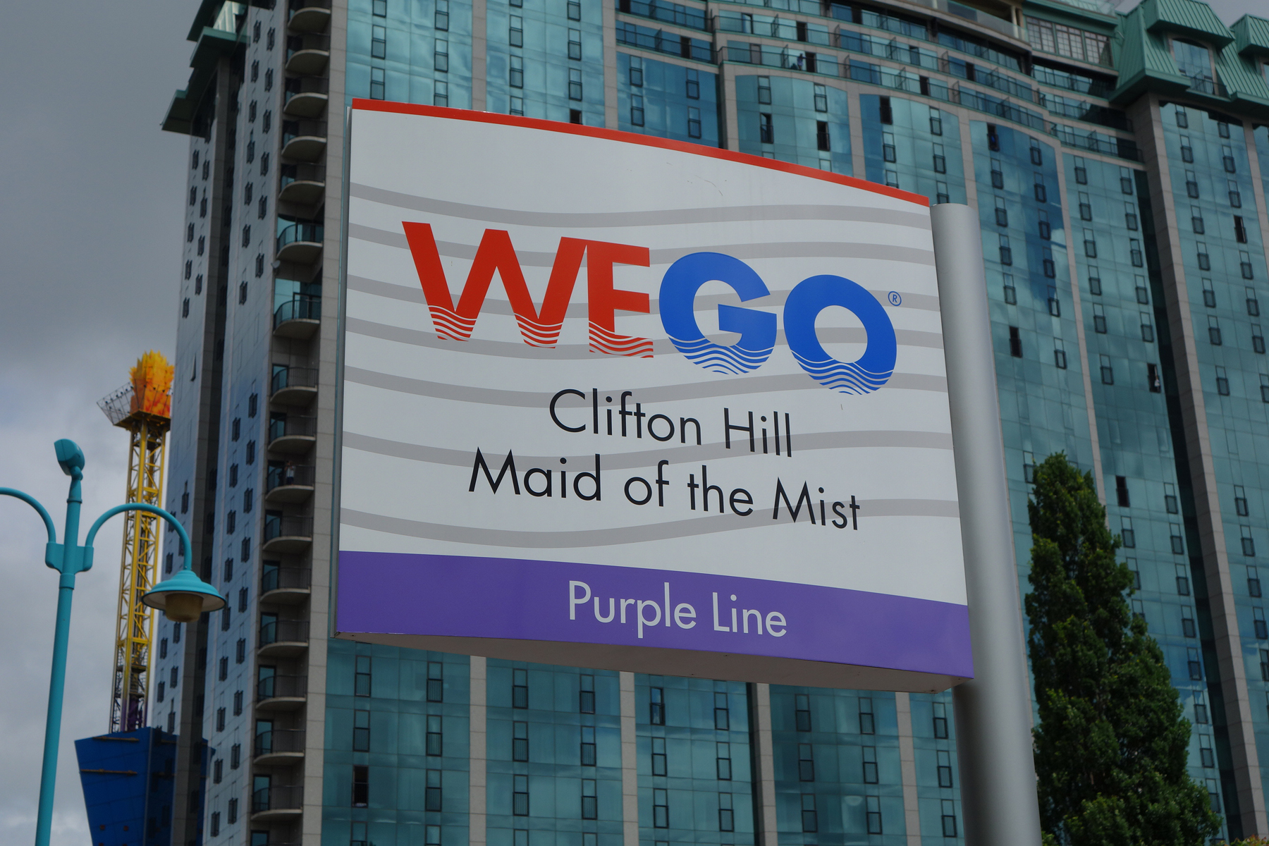 A WEGO bus stop sign on Clifton Hill, Niagara Falls, Ontario.中文（香港）: 安大略省尼亞加拉瀑布城其利夫頓山上的WEGO巴士站牌。